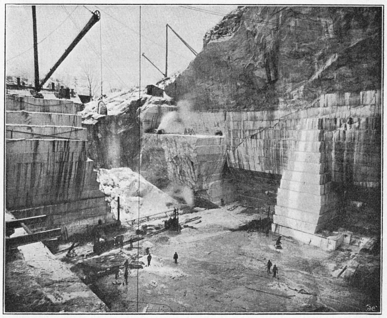 Marble quarrying at Proctor, Vermont.